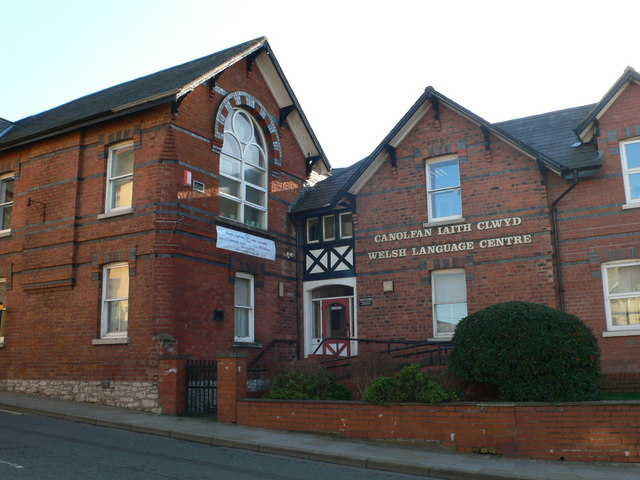 Canolfan Iaith Clwyd Welsh Language Centre in Lenten Pool, Denbigh. It was opened in 1989 in what was the old library.